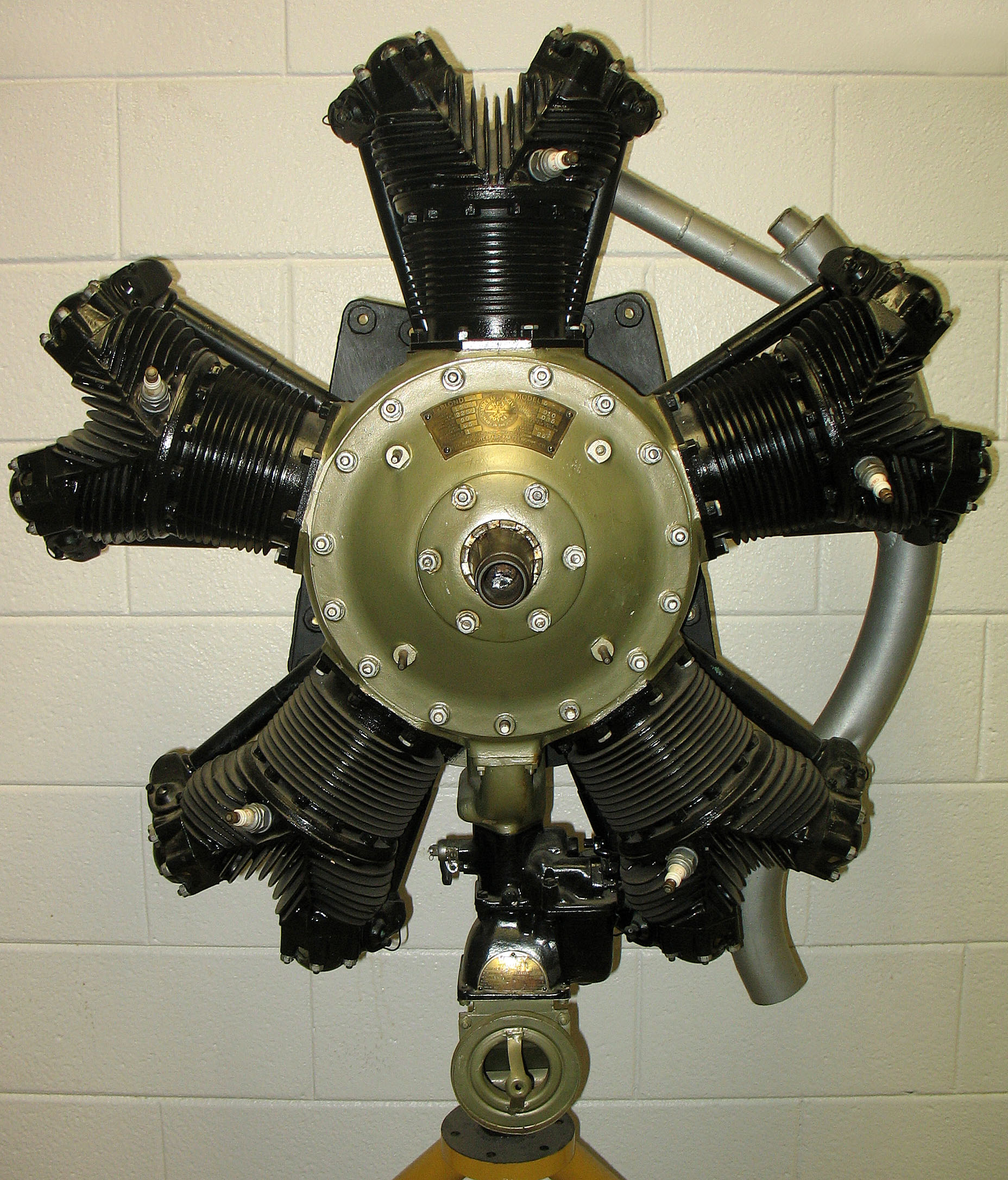 Picture of the LeBlond 90-5F 90hp radial engine